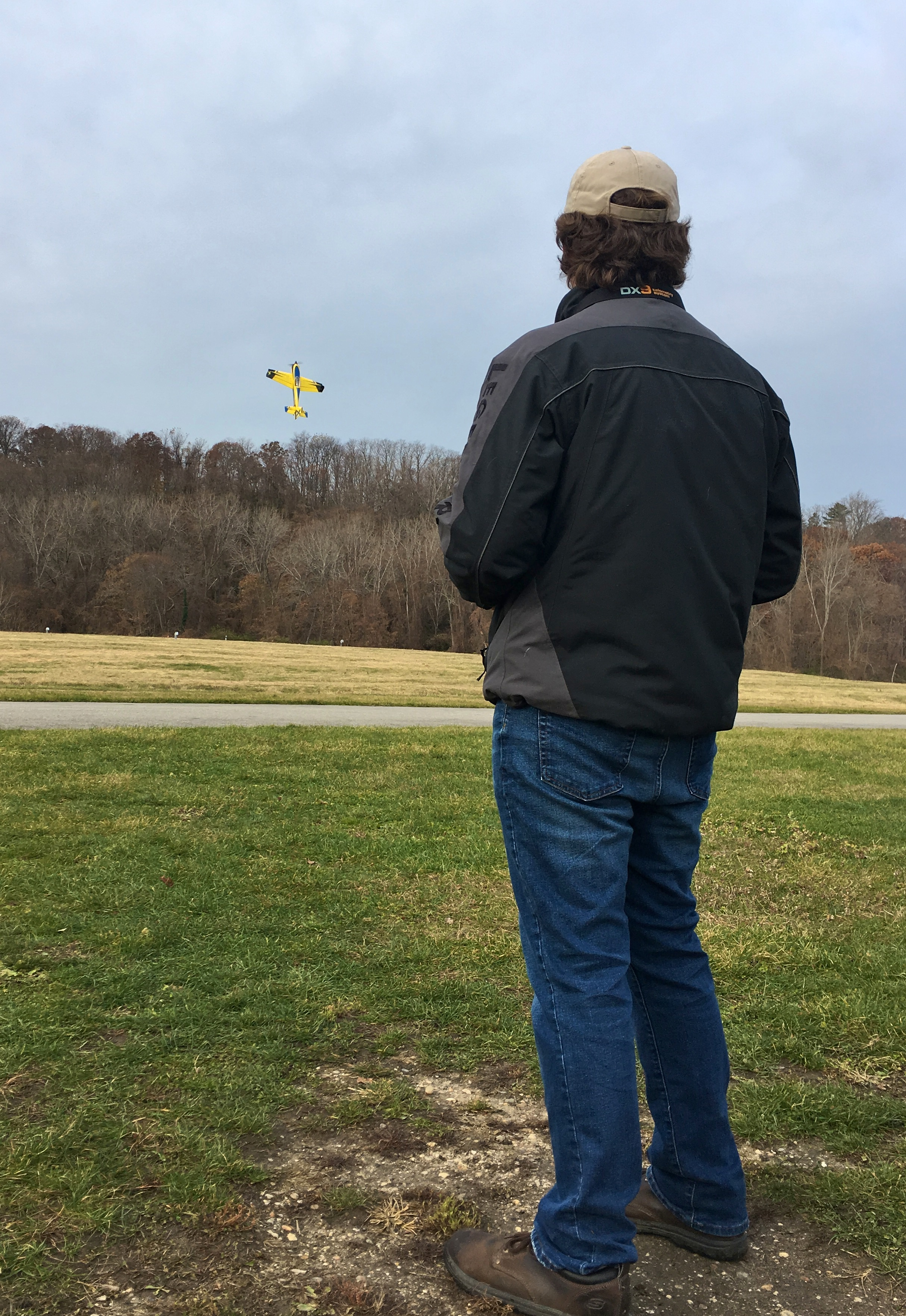 Hobbyist demonstrating hovering with an Extreme Flight 74" Slick, a radio-controlled airplane, at the HHAMS Aerodrome.